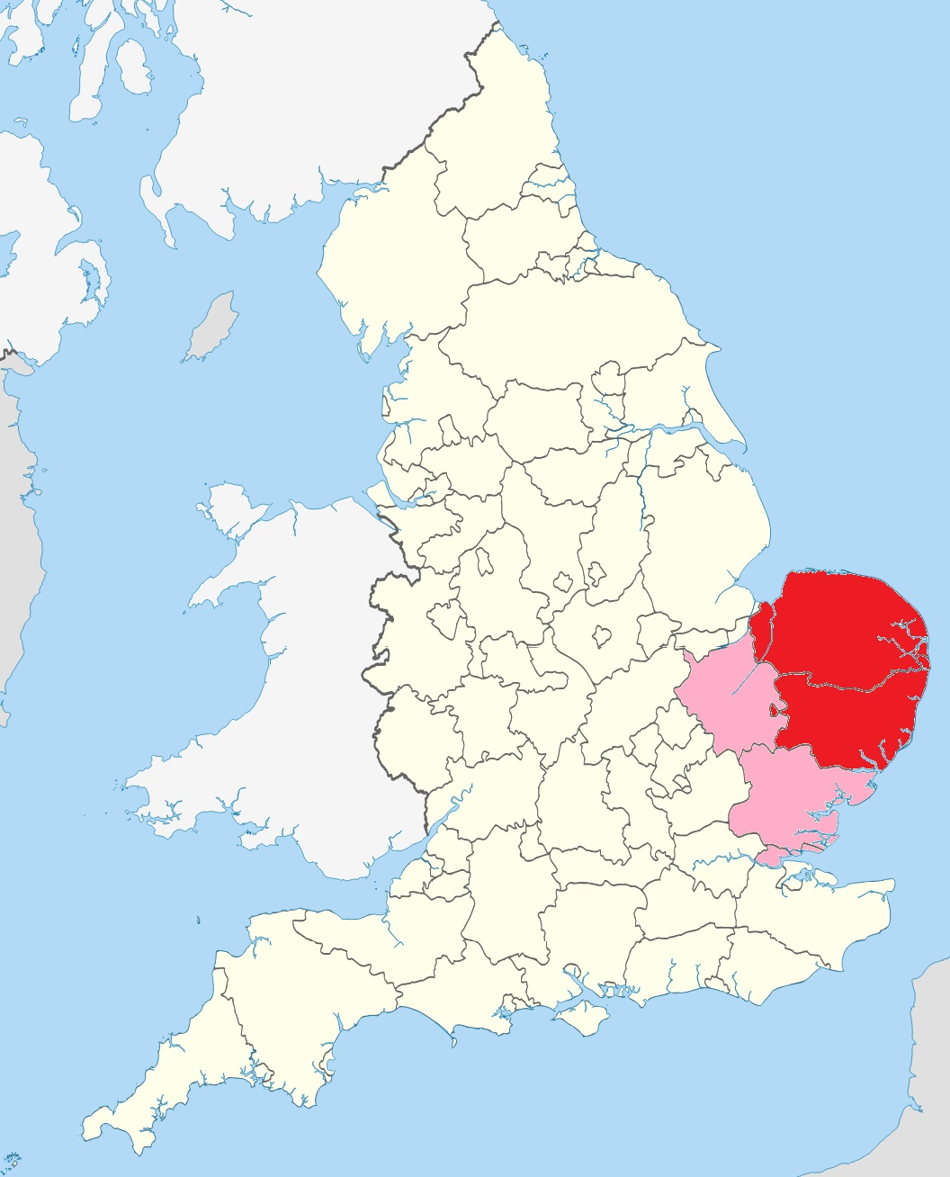 Suffolk and Norfolk in red; Cambridgeshire and Suffolk in pink